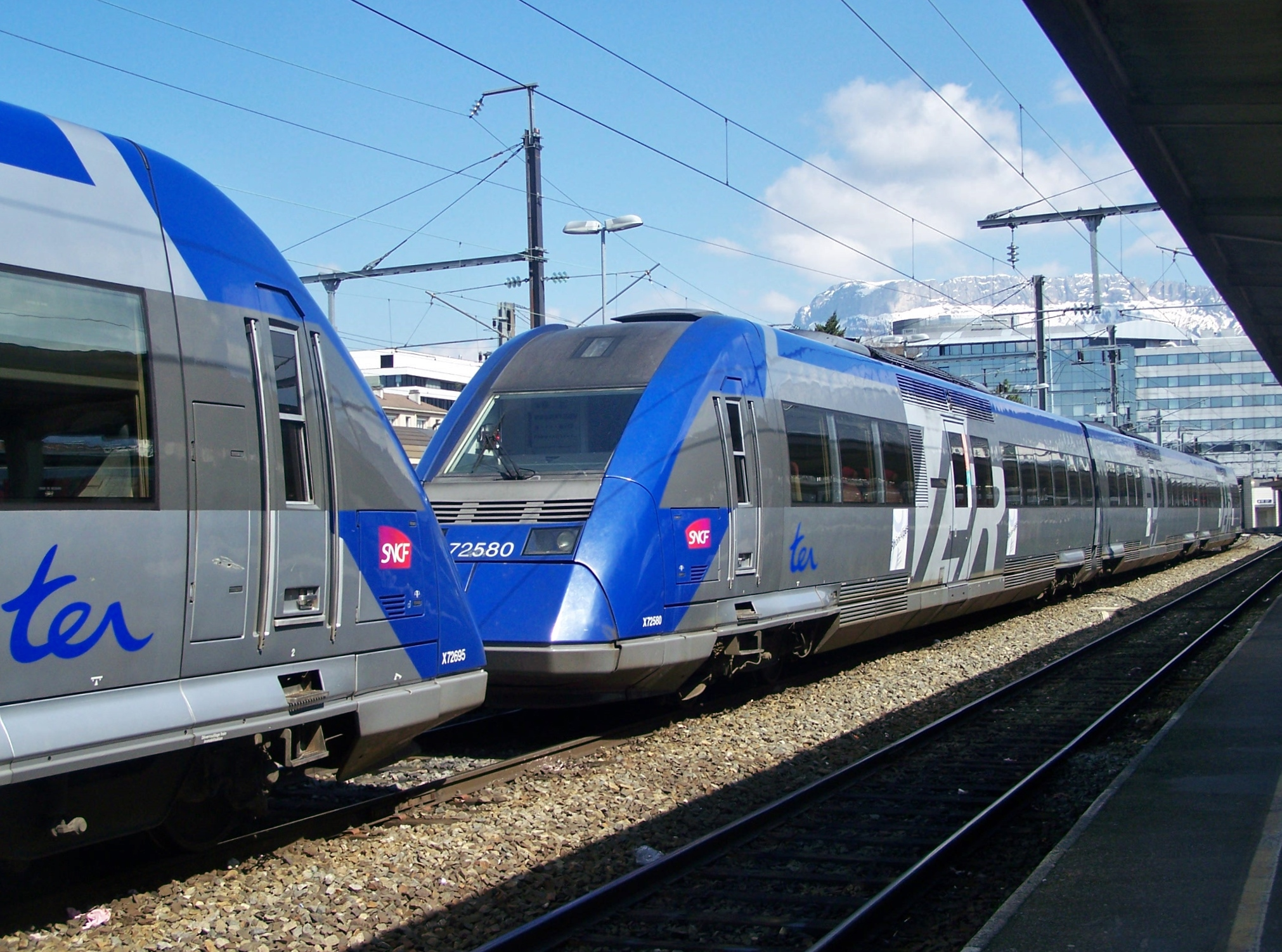 Sight of two SNCF Class X 72500 (also called X-TER), stopped at Annecy railway station, in Haute-Savoie, France.